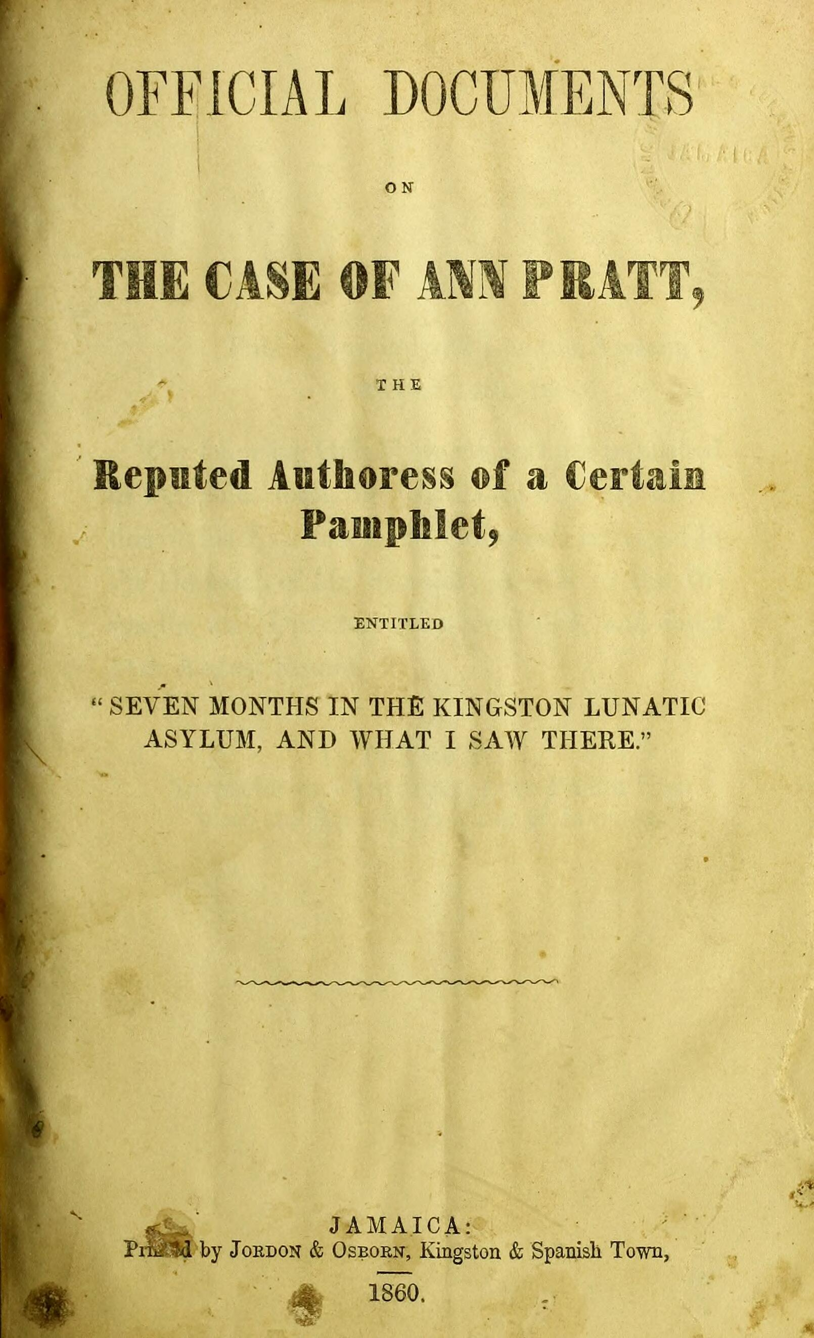 Front page of the following 'The case of Ann Pratt' report created to query Ann Pratt's Pamphlet by Public Hospital and Lunatic Asylum (Kingston, Jamaica), 1860